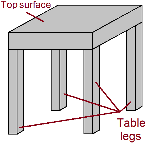 Simple structure of a normal table.